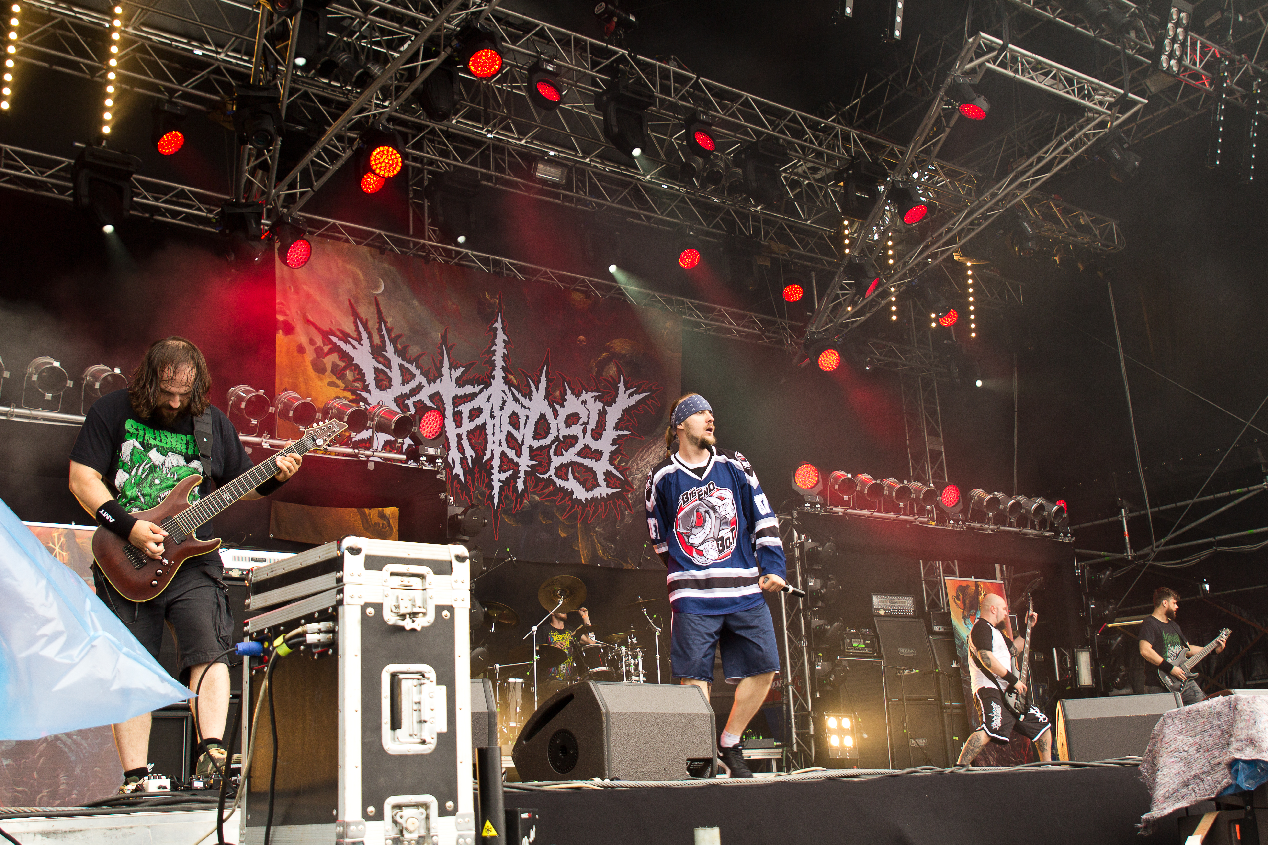 The Russian brutal death metal band Katalepsy at the Party.San Metal Open Air 2016 in Obermehler-Schlotheim/Germany